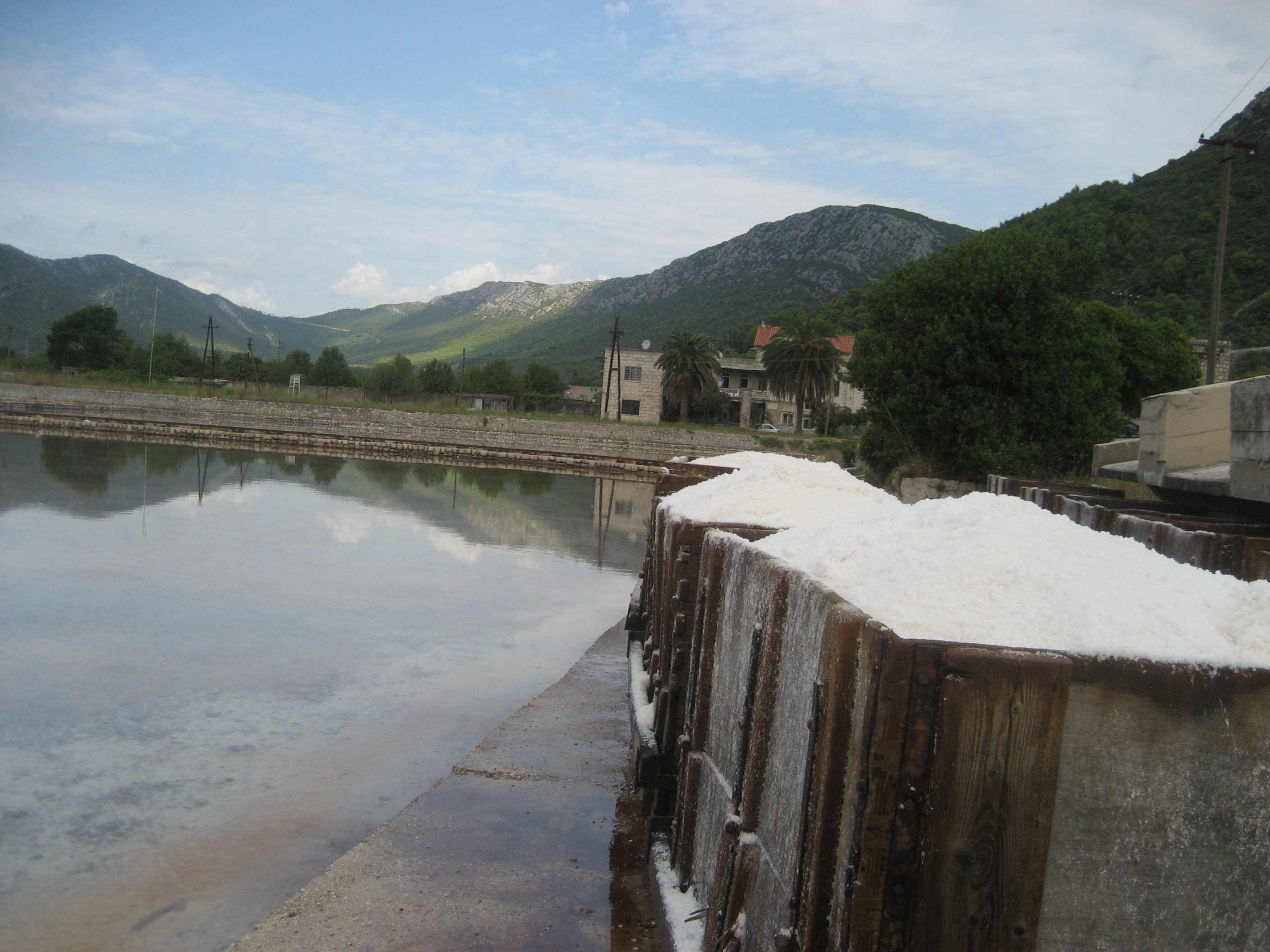 Saline Ston, Croatia